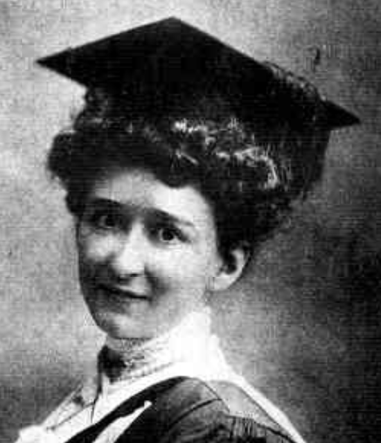 Ruby Davy (1883-1949) Australia's first women Doctor of Music, pianist, teacher and composer